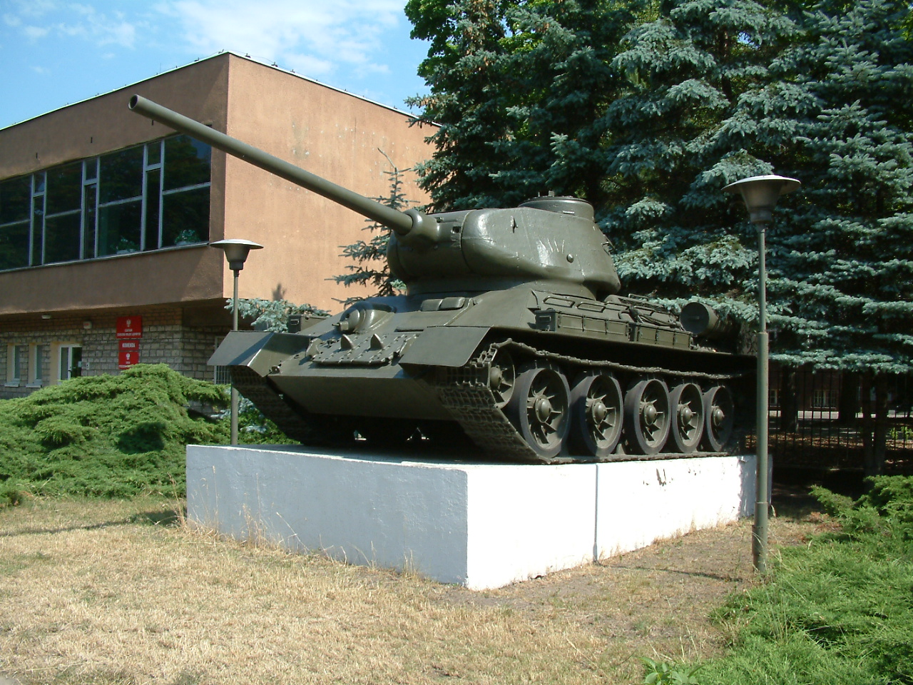 T-34/85 in front of Center of Training of Land Forces in Poznań